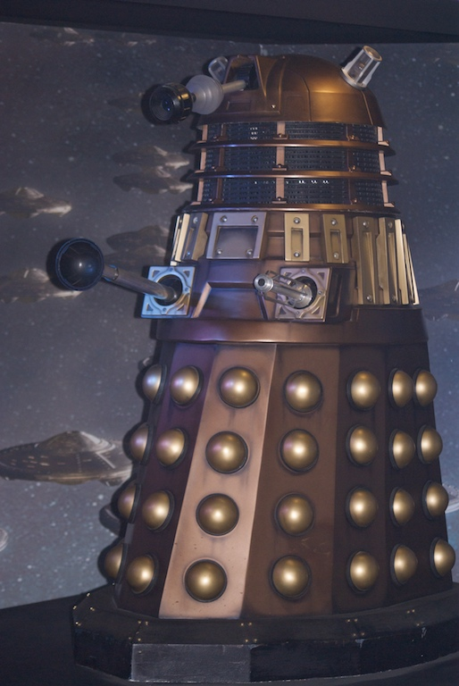 Dalek Doctor Who Experience